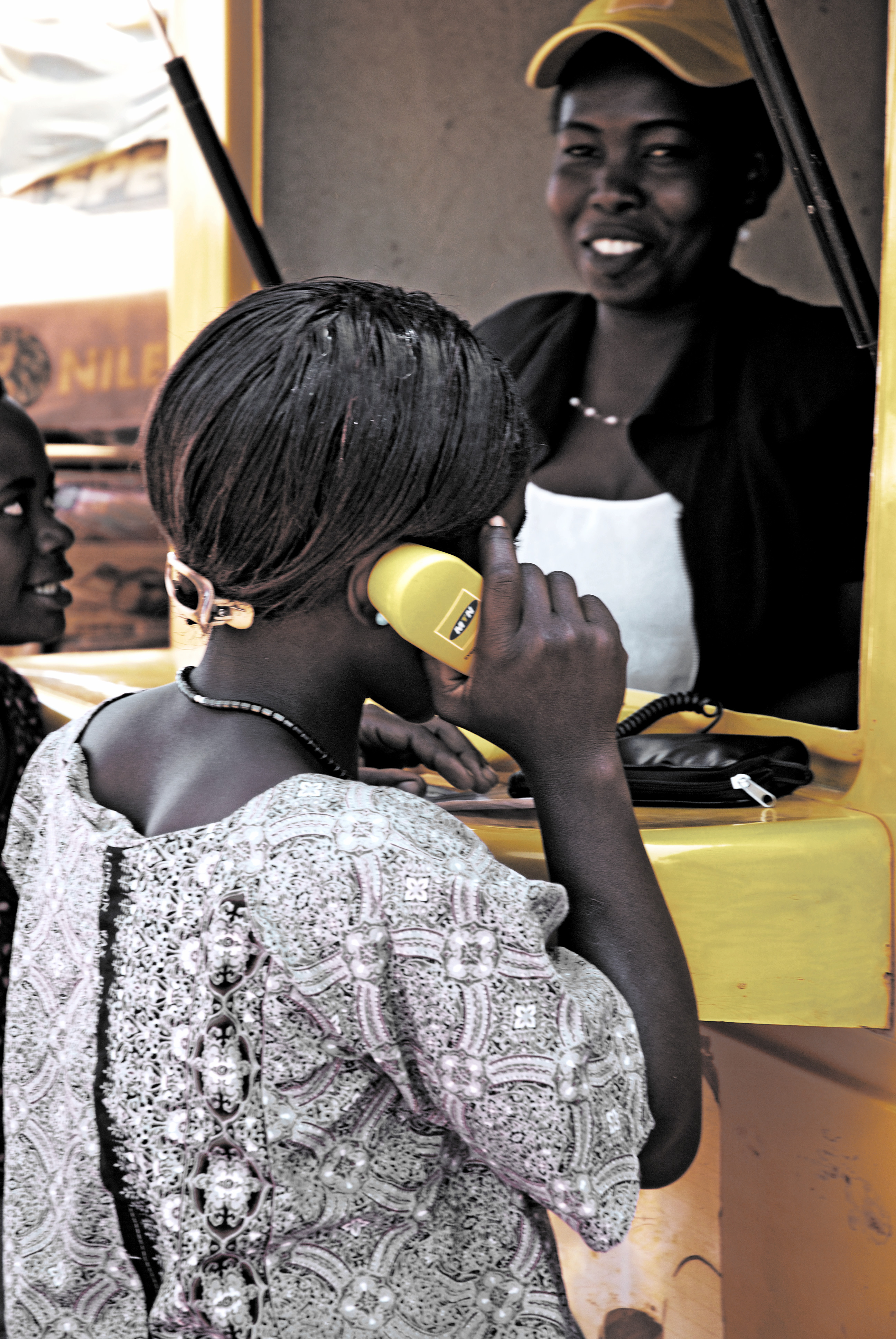 A GSM MTN public phone in Uganda.